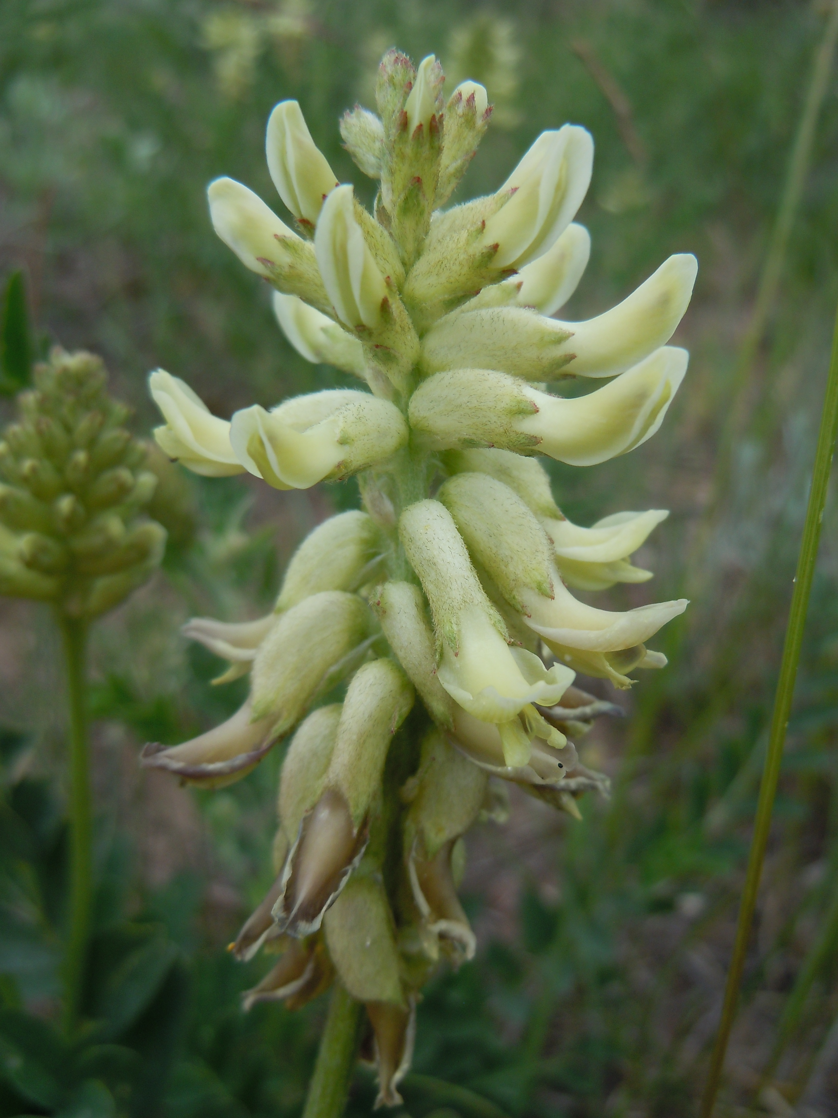 The creamy white flowers that nod by anthesis and that are arranged in a thick spike are characteristic of this species.